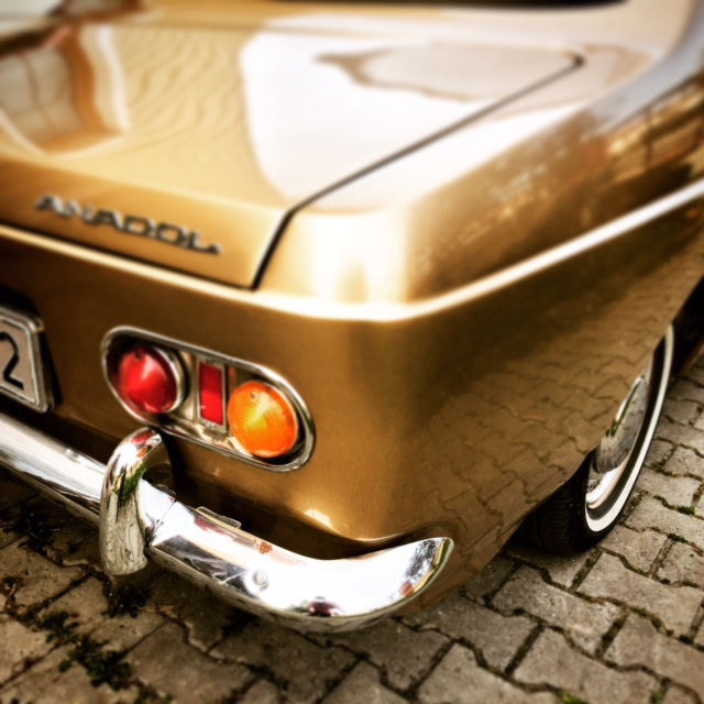 Anadol A1 Sağ Arka Stoplar , Stop Çerçevesi ve Tampon